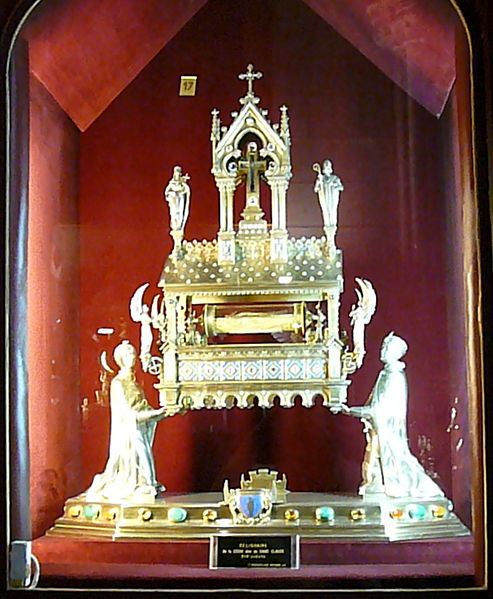 18/19t Century reliquary of the True Cross